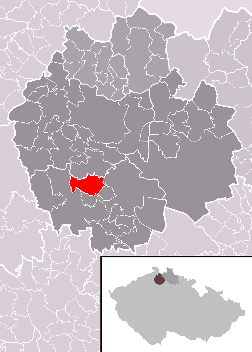 Location of Chlum municipality within Česká Lípa District and administrative area of Česká Lípa as a Municipality with Extended Competence.